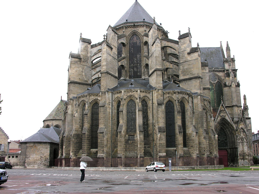 Soissons Cathedral, east end